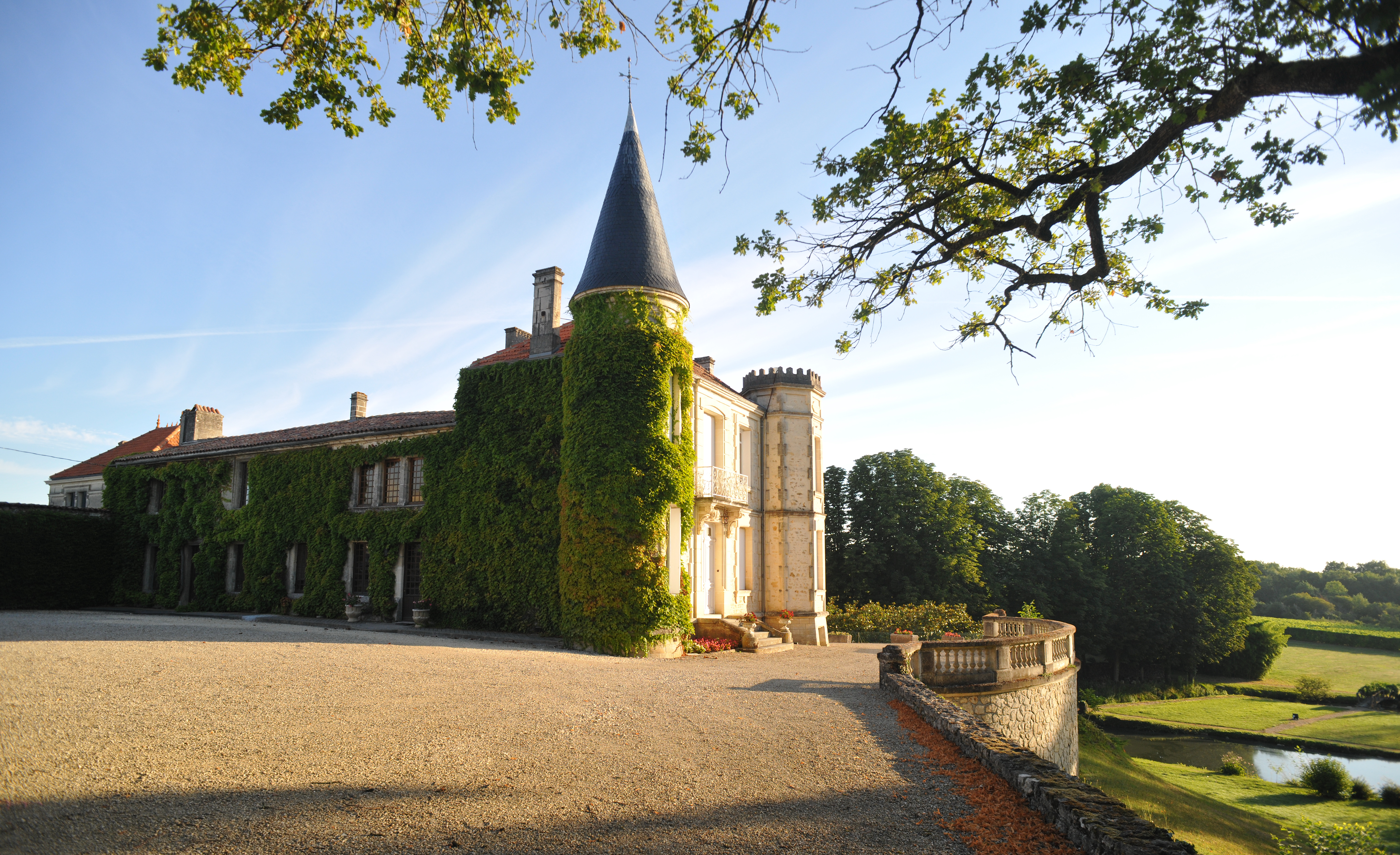 Chateau Plessis-Birth place of Family Camus